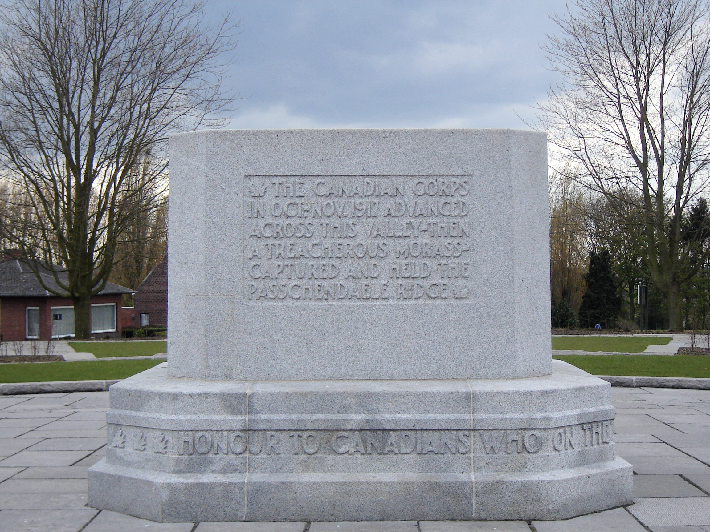 Crest Farm Canadian Memorial in Passendale. Passendale, Zonnebeke, West Flanders, Belgium